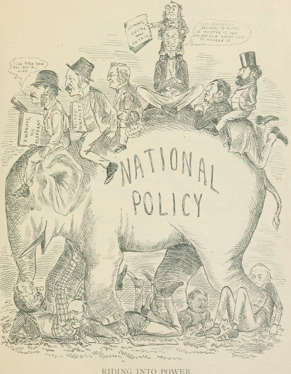 Sir John A. Macdonald and the Conservatives ride the National Policy into power in the 1878 election.